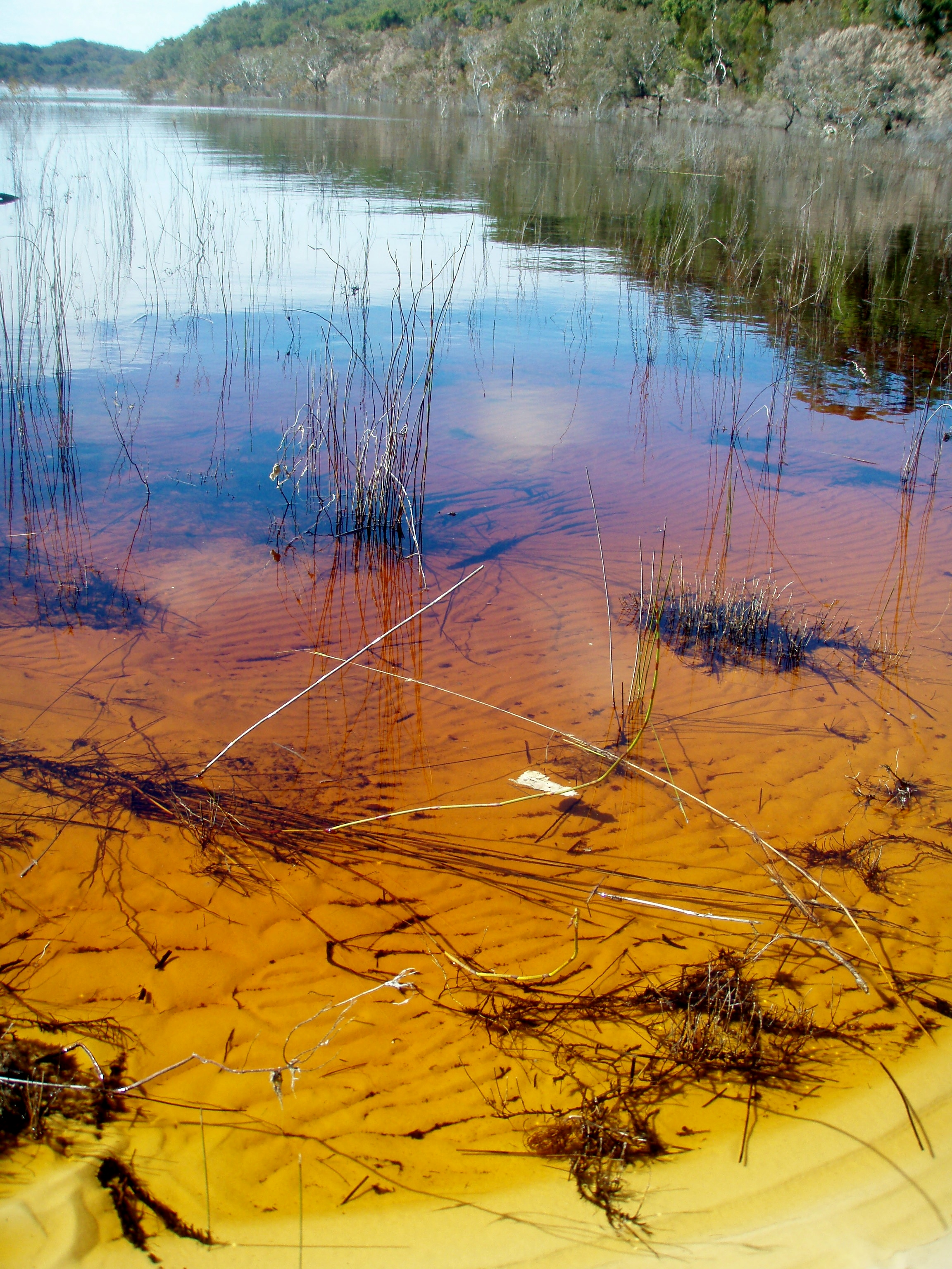 Lake Boomanjin, Fraser Island, Australia. August 2011